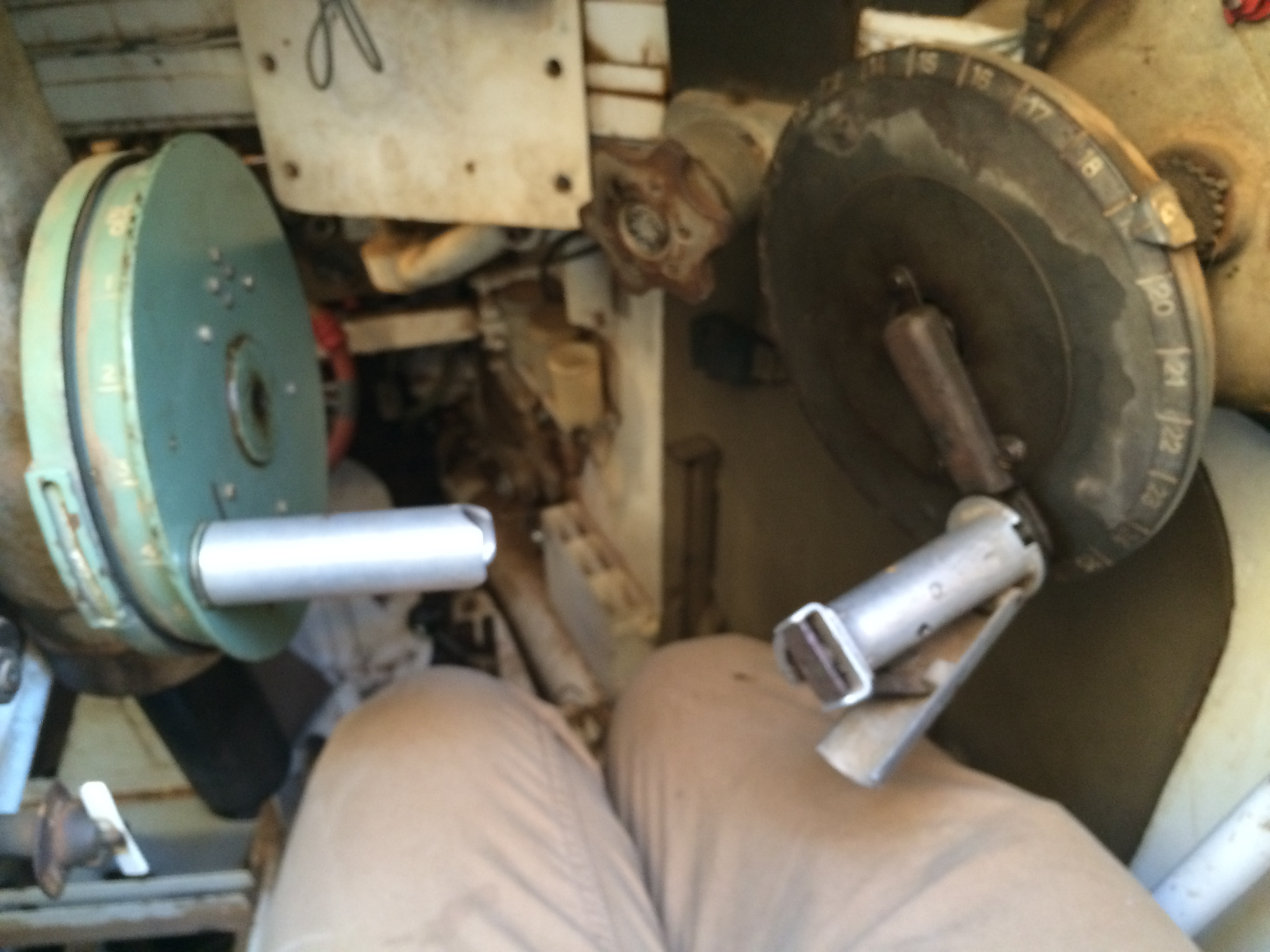 Description: Turret cranks of an Eland Mk7 Armoured Car at 1 Tank Regiment, Tempe Base, Bloemfontein. 2014. Left is elevation, right is horizontal traverse.